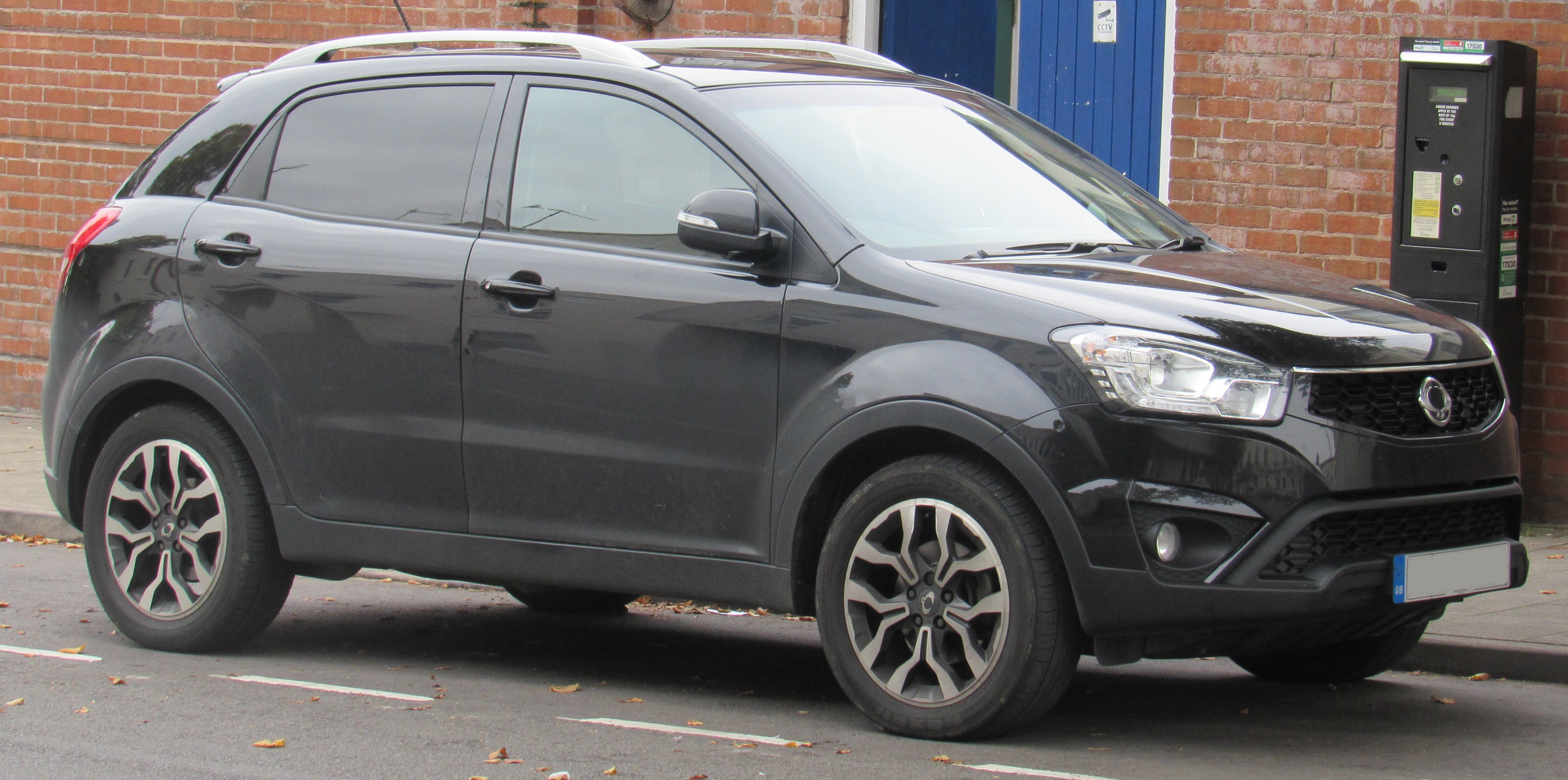 2016 SsangYong Korando ELX Automatic 2.2 Front Taken in Leamington Spa